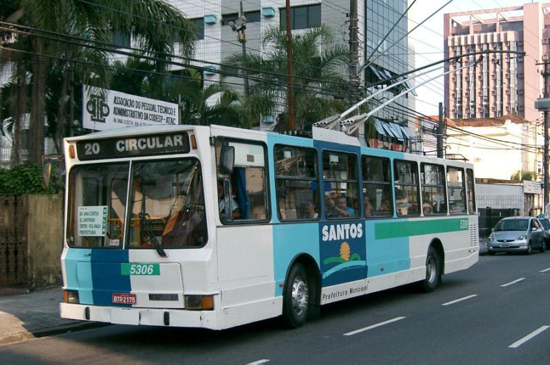 Santos, Brazil trolleybus 5306, built in 1988 by Mafersa/Villares. It is running on Avenida Ana Costa near the Vila Mathias and Vila Belmiro quarters in Santos in 2005. This vehicle and five others of the same type are in operation on route 20 in Santos.